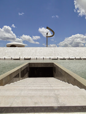 Enterence to JK - Memorial